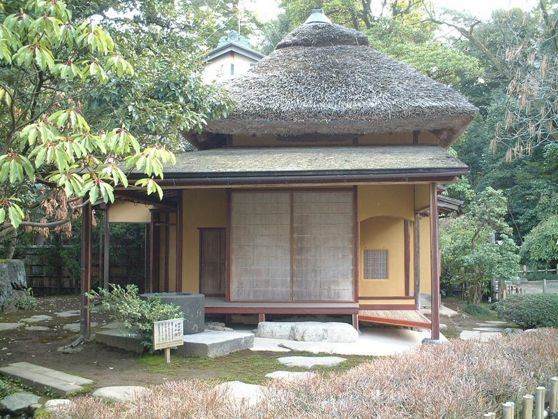 Arbatos namai atspindintys Vabi Sabi estetinę filosoiją